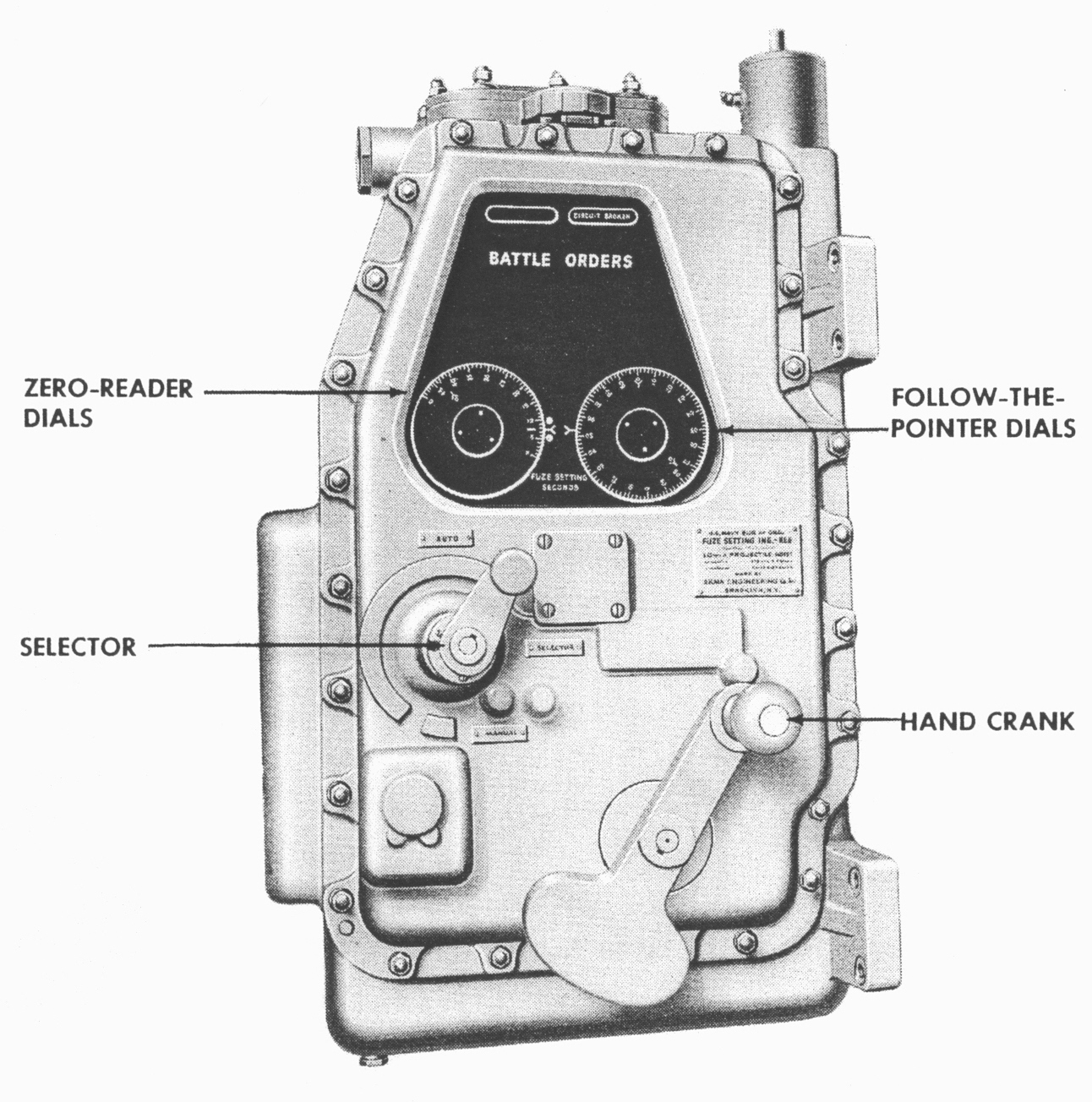 5"/38cal Fuze Indicator Regulator. Cropped portion of image scanned from source. Originally uploaded to EN Wikipedia as File:5in38calFzIndReg.jpg by User:FTC Gerry 2 October 2007